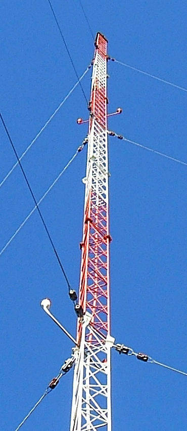 Antenna tower of AM radio station KBRC, located in Mount Vernon, Washington state, USA. This common type of broadcasting antenna is a "mast radiator"; the 200 ft (61 m) lattice tower itself is connected to the radio transmitter and serves as the radiating element. This closeup shows the supporting guy wires attached at three levels at angles of 120 ° around the tower. They are insulated from the high-voltage tower by pairs of ceramic strain insulators. The pairs of arms projecting from the tower are aircraft warning lights. KBRC currently broadcasts on 1430 kHz with a power of only one kilowatt.